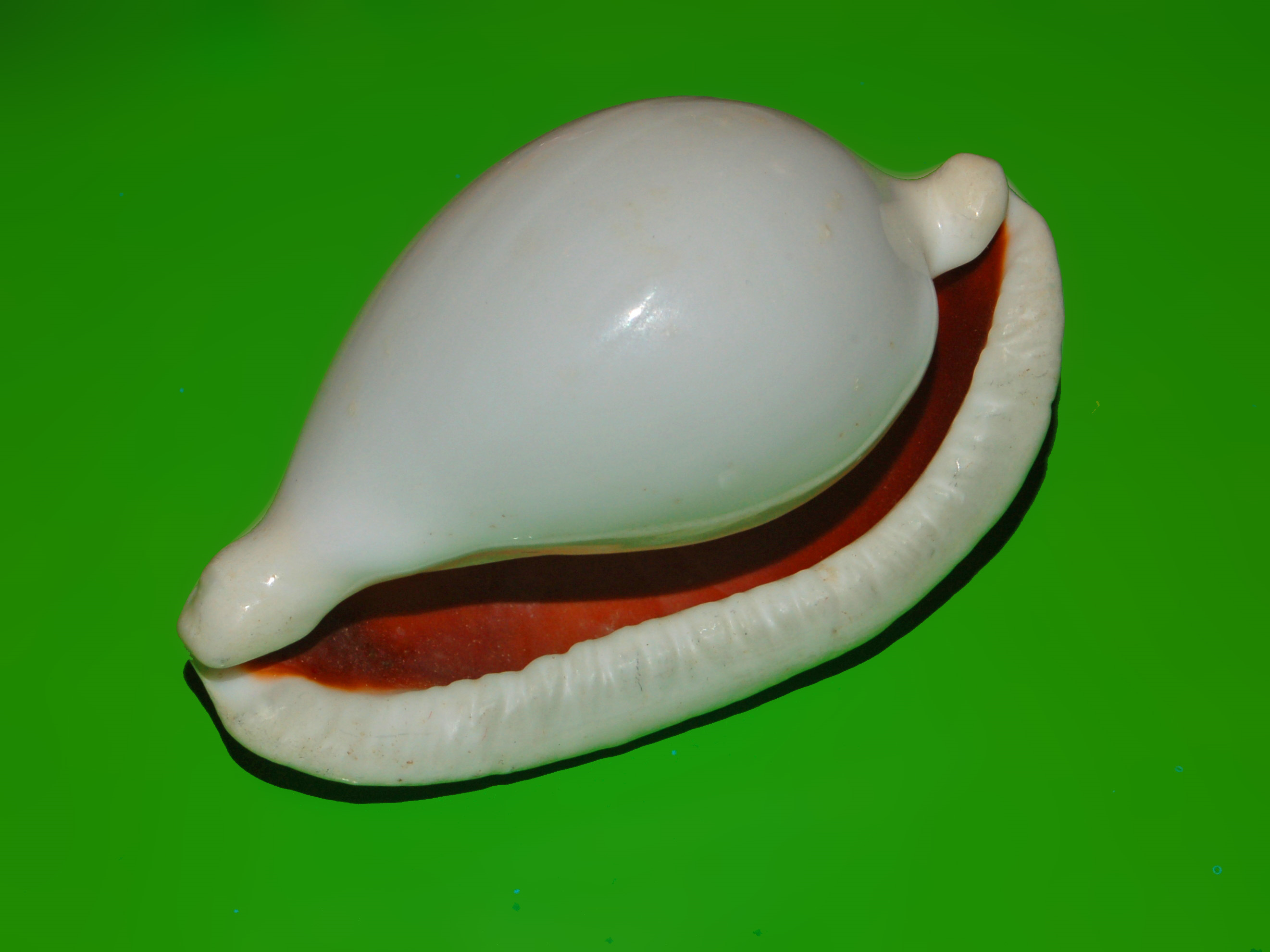 Ovula ovum